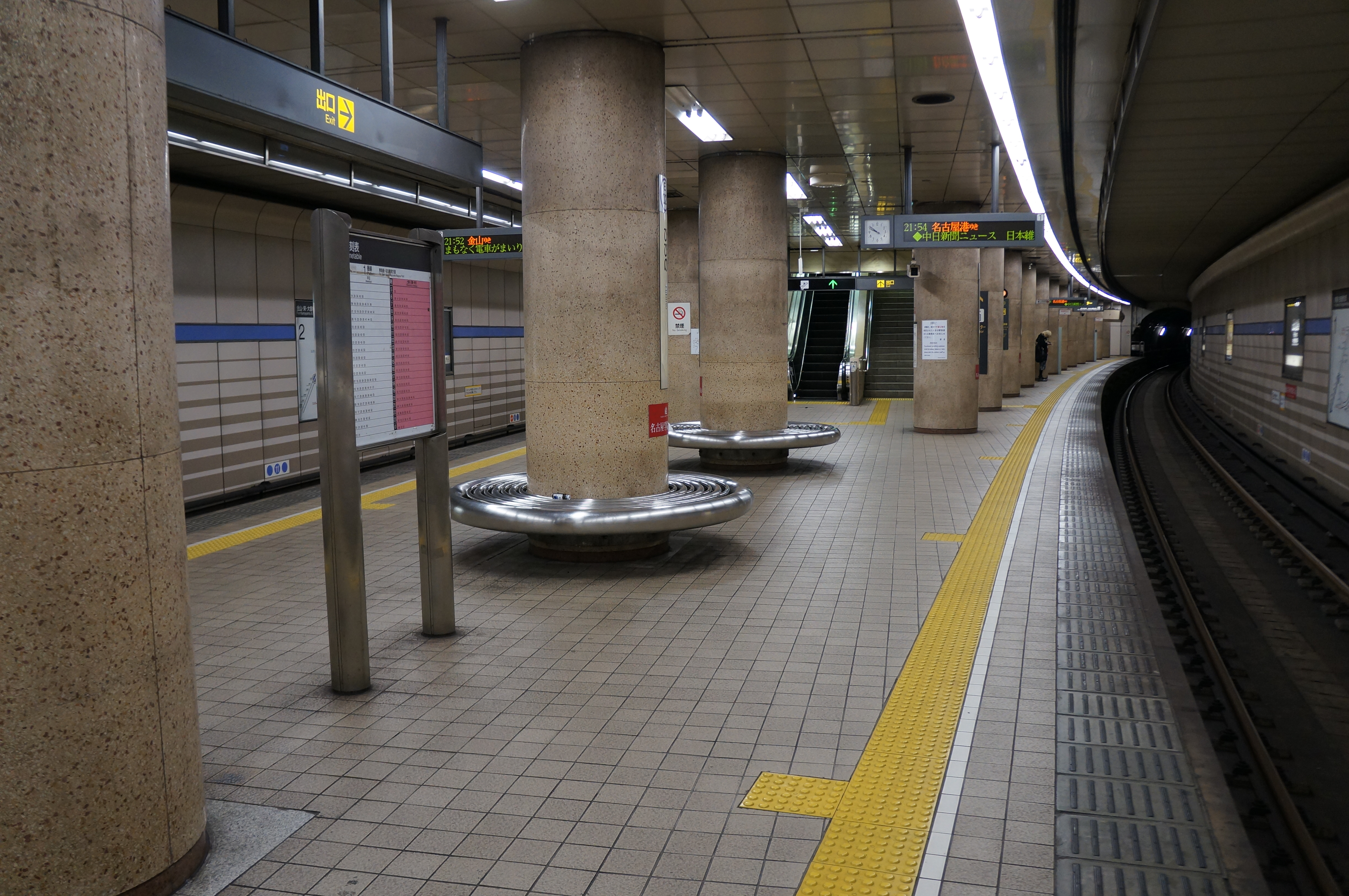 Platform of Nagoya Subway Hibino Station